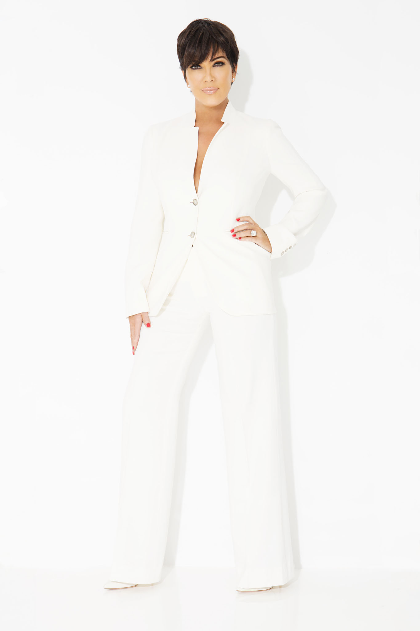 Kris Jenner